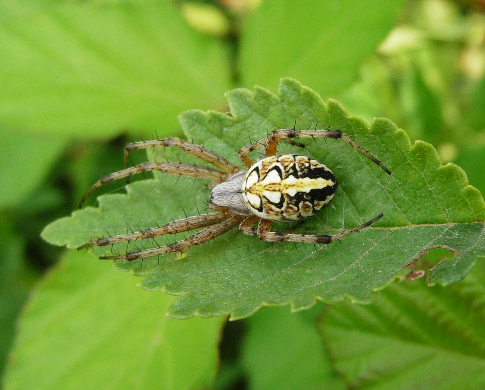 Neoscona adianta, near Livorno, Tuscany, Italy